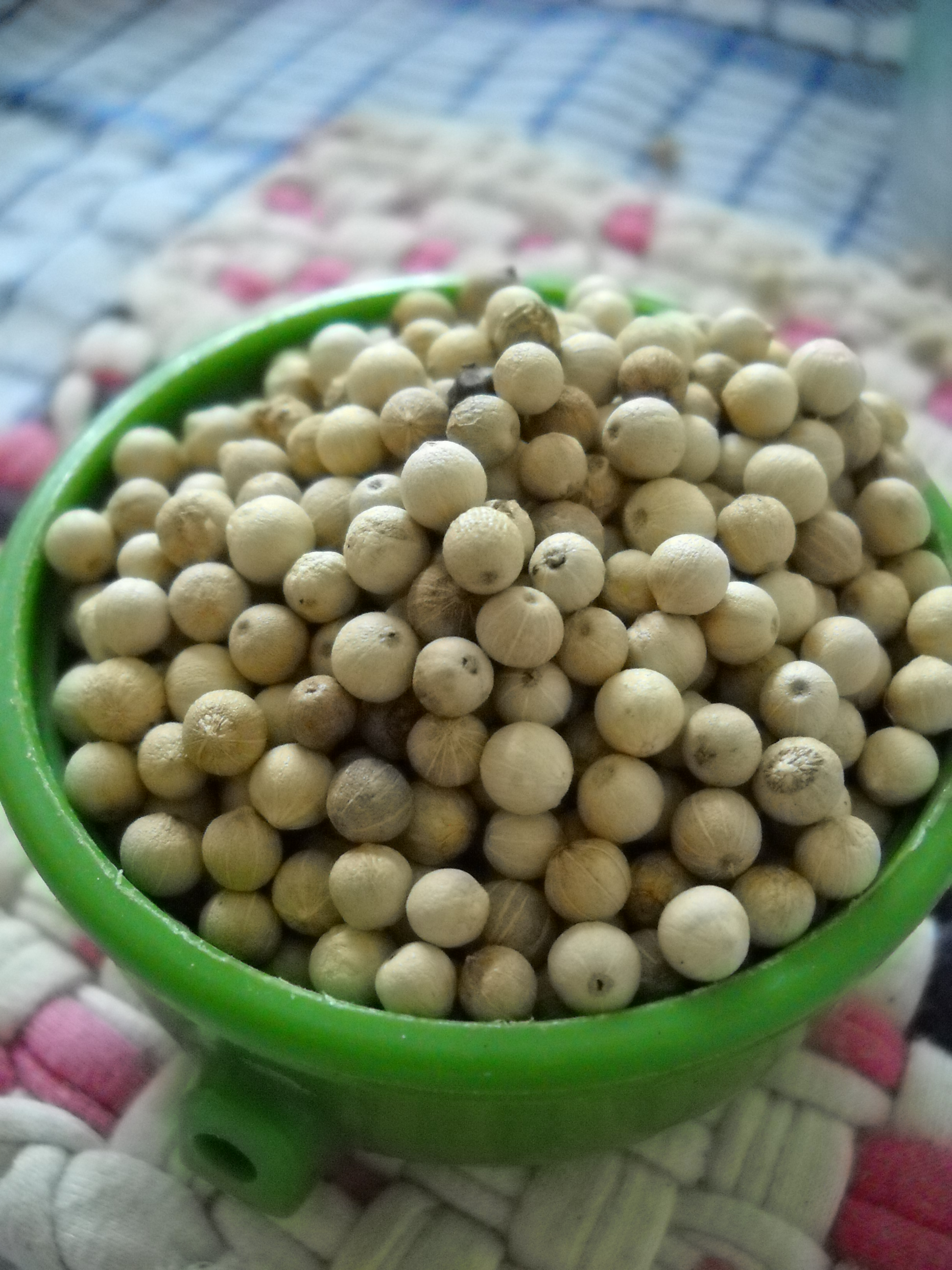 Bangka White Pepper, unprocessed.